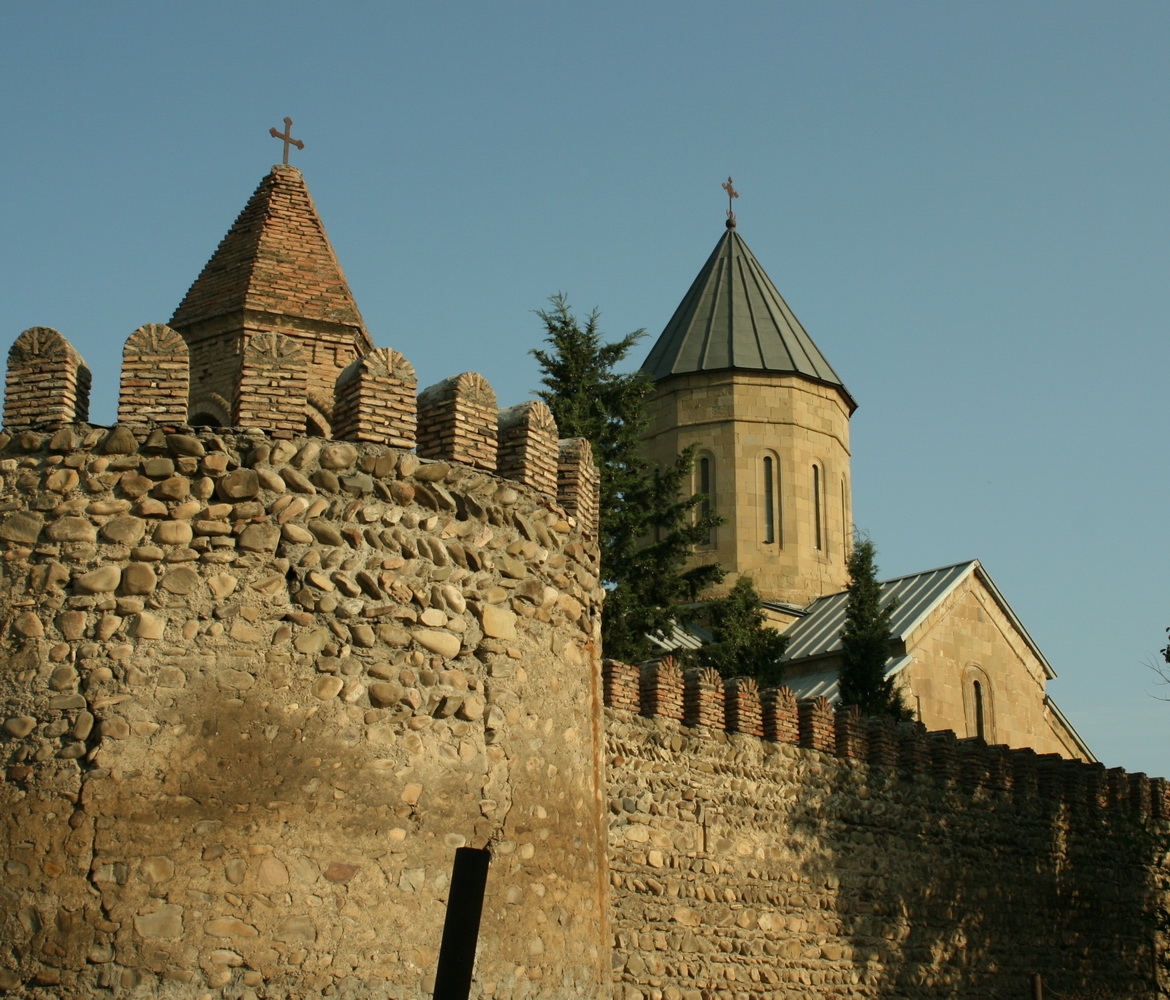 Tsilkani church, Georgia